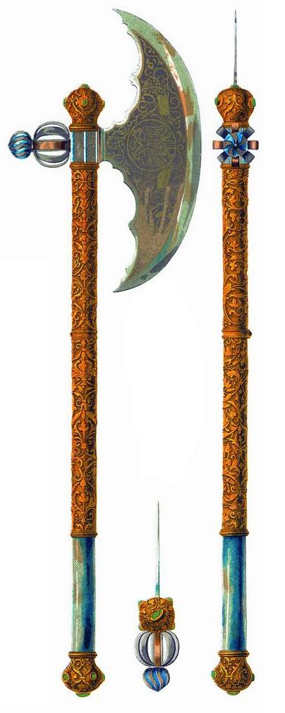 Axe of Rynda